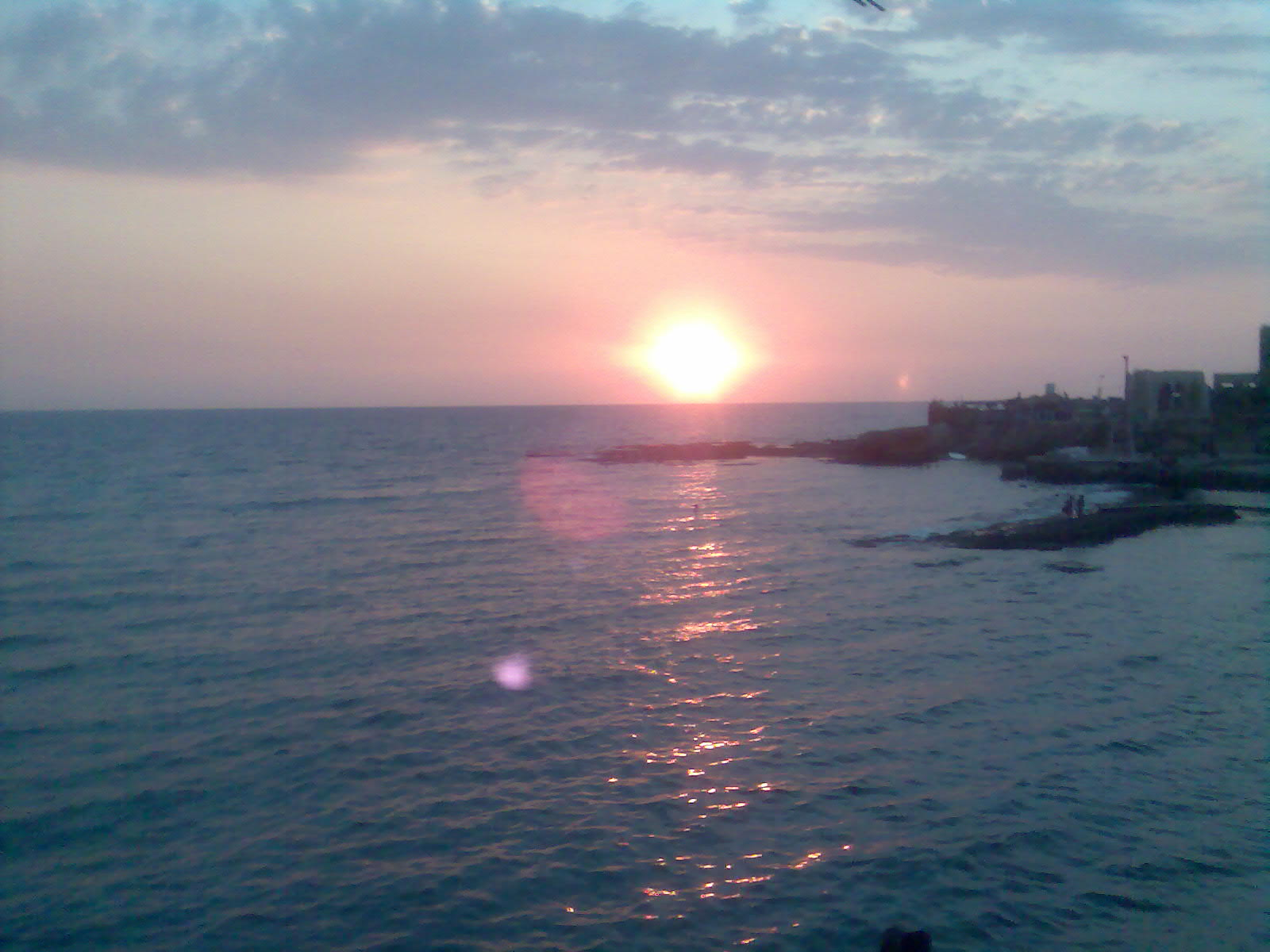 coucher du soleil au bord de la mer. Prise à Batroun-Liban.